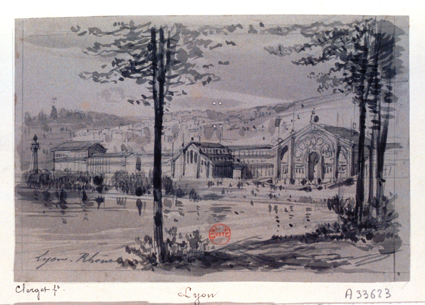 Buildings of the Exposition universelle of 1872 in Lyon, France